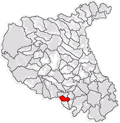 Limits of commune within Vrancea County